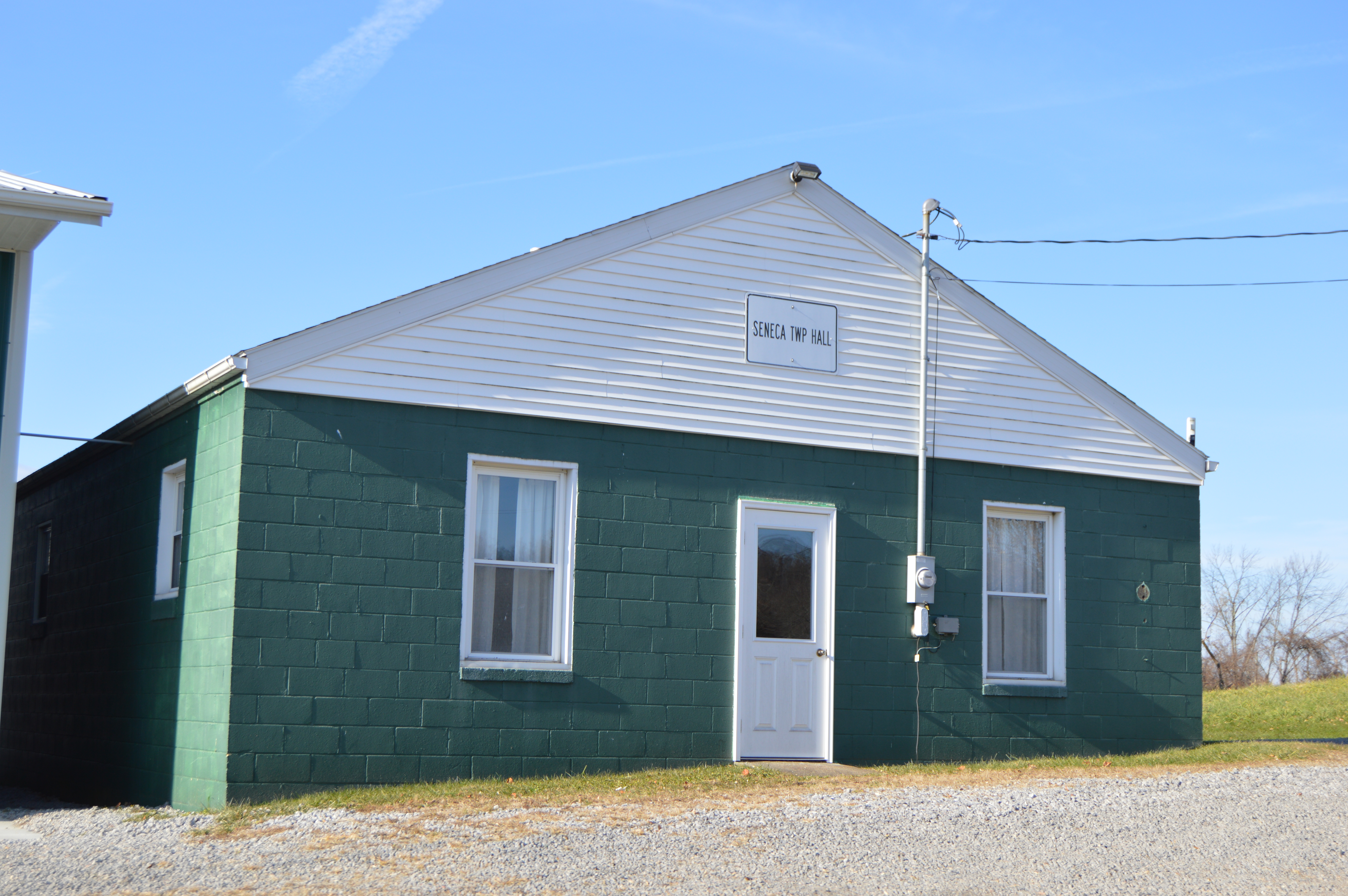 Front of the Seneca Township Hall, located on State Route 147 at Mount Ephraim in Seneca Township, Noble County, Ohio, United States.